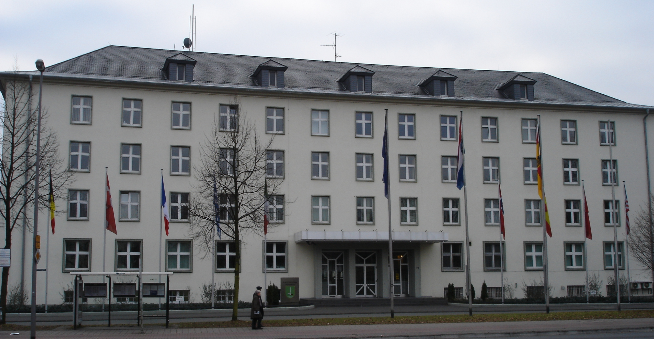 Headquarters of the German-Netherlands-Corps in Münster, Westphalia, Germany